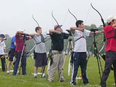 Recurve archers shooting in outdoor competition.